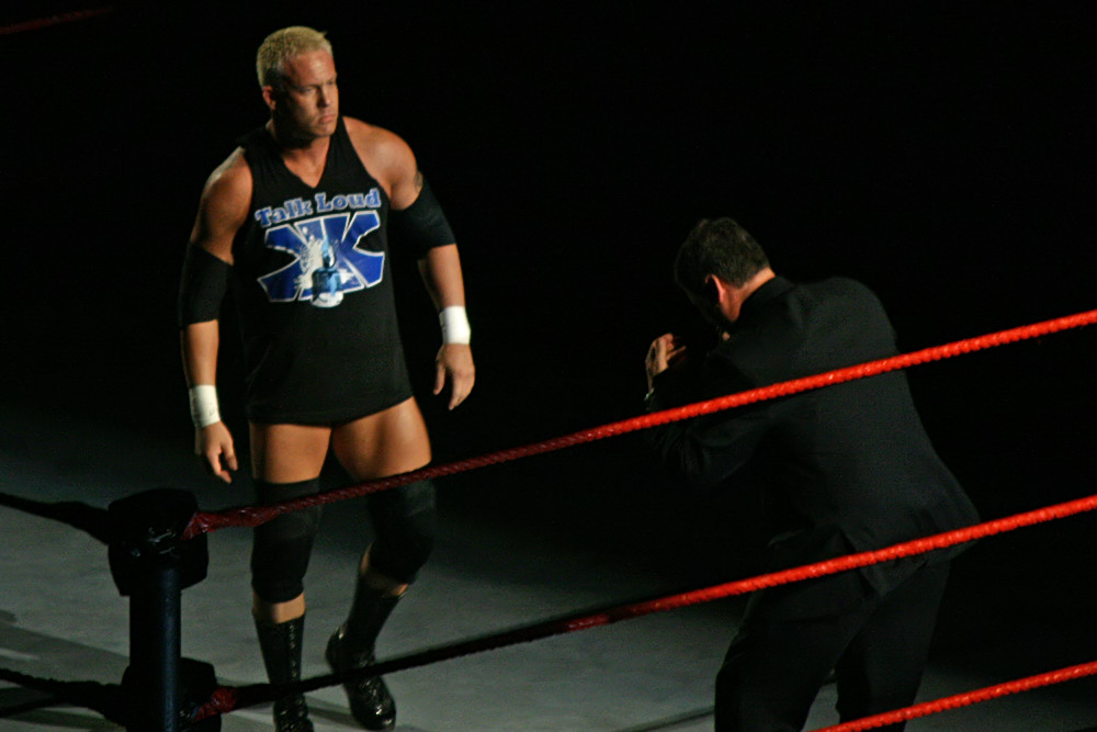 Mr. Kennedy (Ken Anderson) taunts ring announcer Tony Chimel before the match. Taken during the WWE Raw - Survivor Series Tour, at Rod Laver Arena, Melbourne Park, Melbourne, Australia. Kennedy wrestled Bob 'Hardcore' Holly; the match was won by Kennedy pinning Holly with a roll-up.